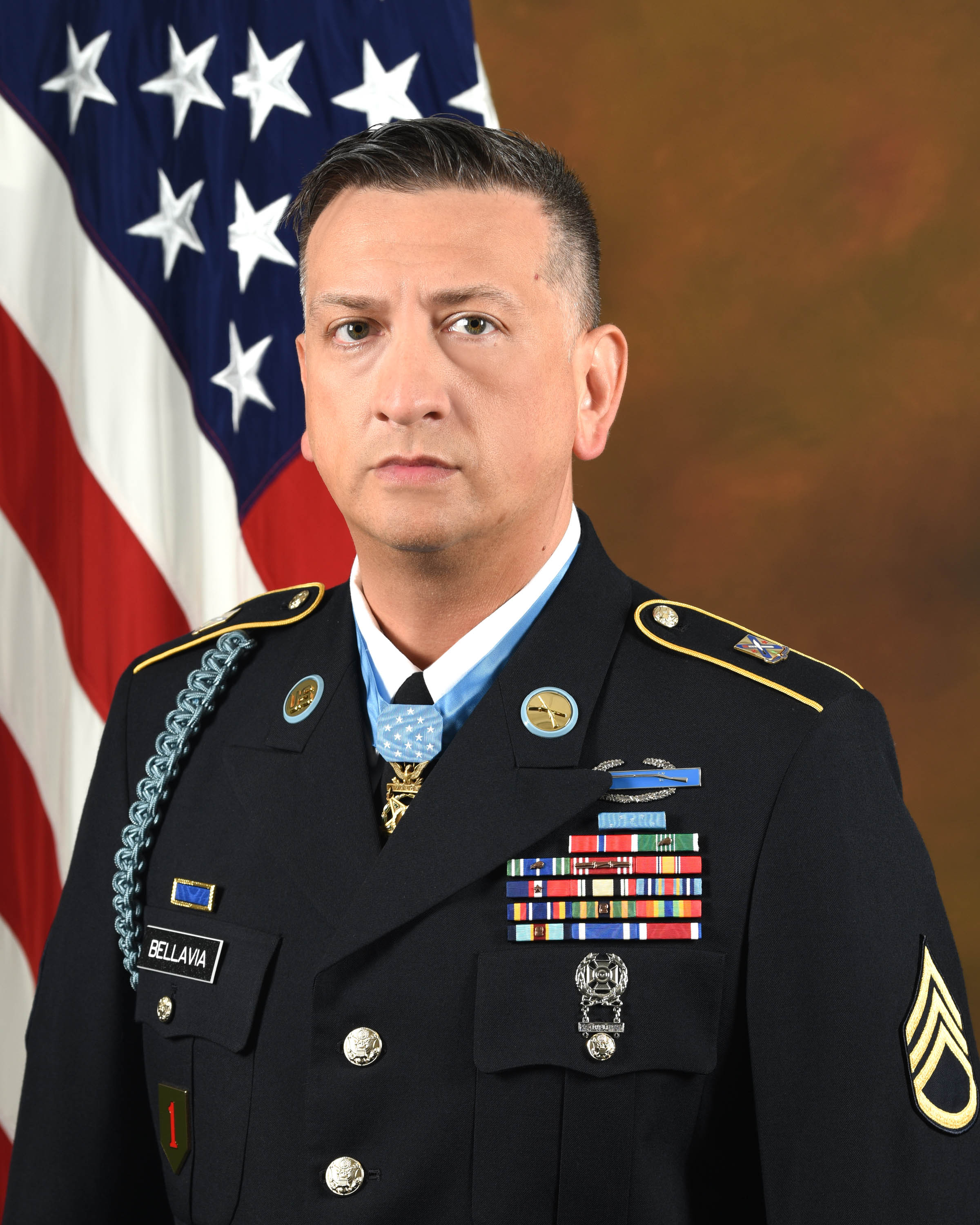 U.S. Army Staff Sergeant David G. Bellavia poses for his official portrait in the Army portrait studio at the Pentagon in Arlington, Va., June 26, 2019. Staff Sergeant David G. Bellavia received the Medal of Honor from President Donald J. Trump at the White House on June 25, 2019 for conspicuous gallantry and intrepidity at the risk of his life above and beyond the call of duty. Staff Sergeant David G. Bellavia distinguished himself by acts of gallantry and intrepidity above and beyond the call of duty on November 10, 2004, while serving as squad leader in support of Operation Phantom Fury in Fallujah, Iraq. (U.S. Army photo by Monica King)